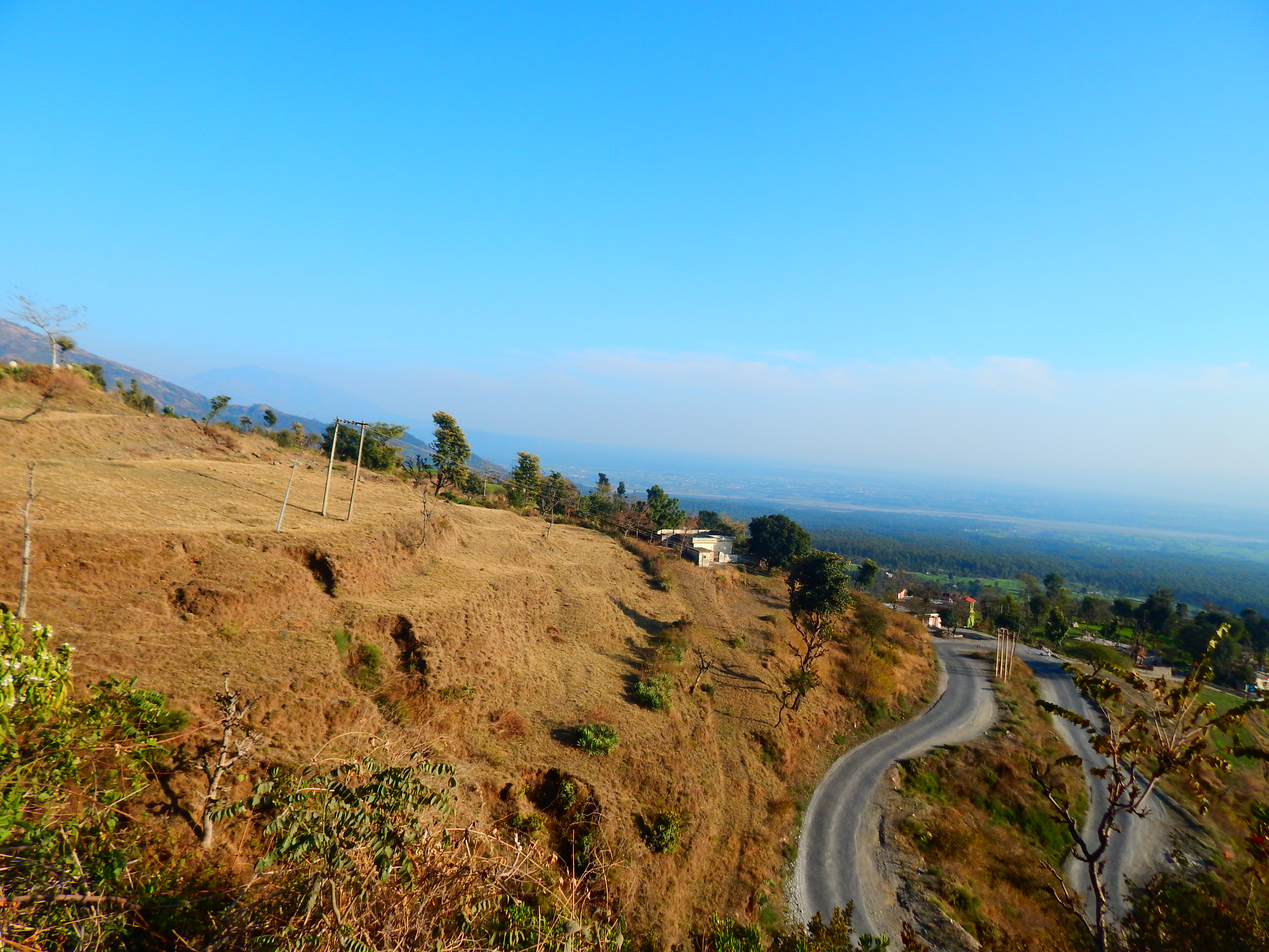 Clicked raw beauty in Himachal.